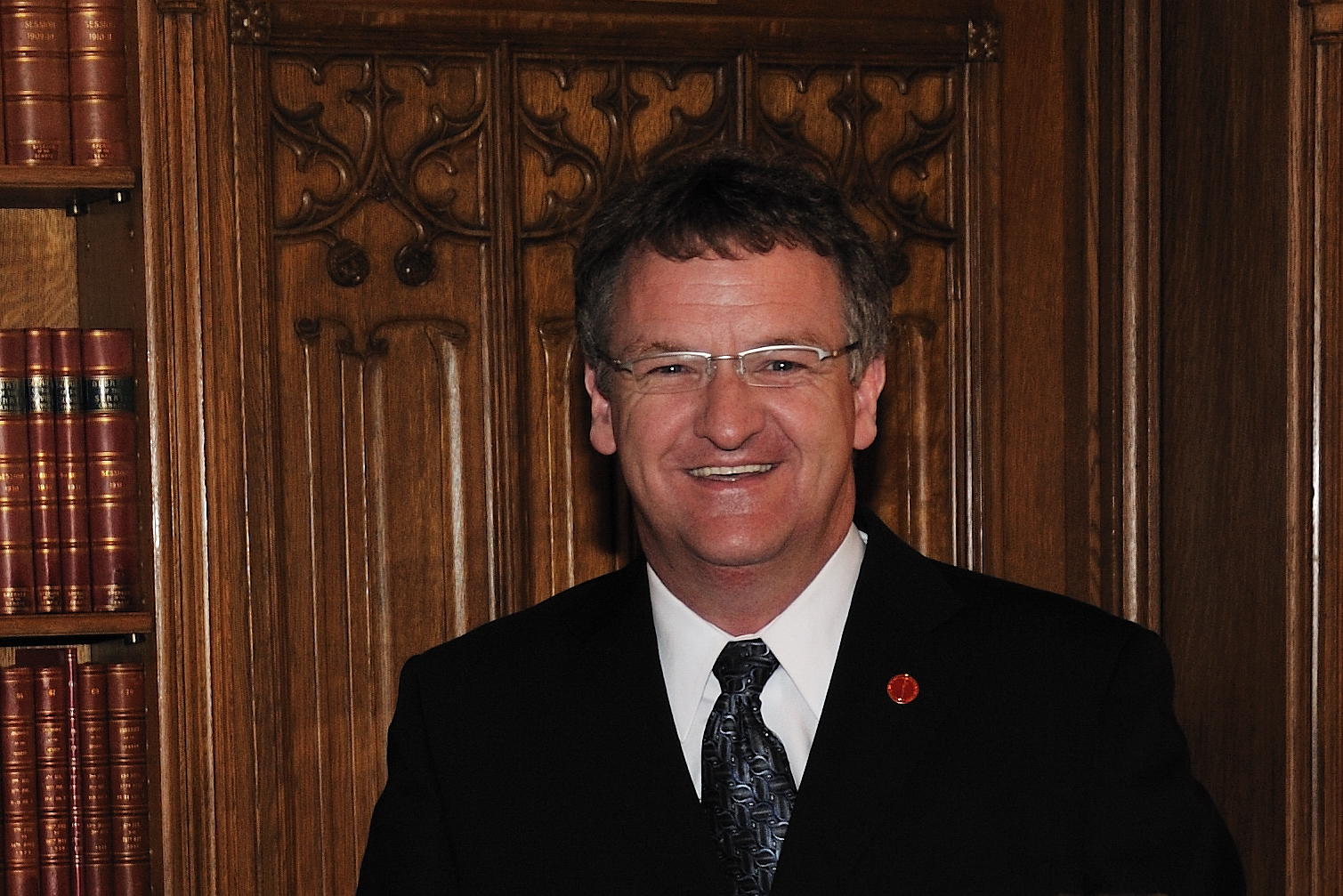 Fabian Manning (standing), Senator for Newfoundland and Labrador.